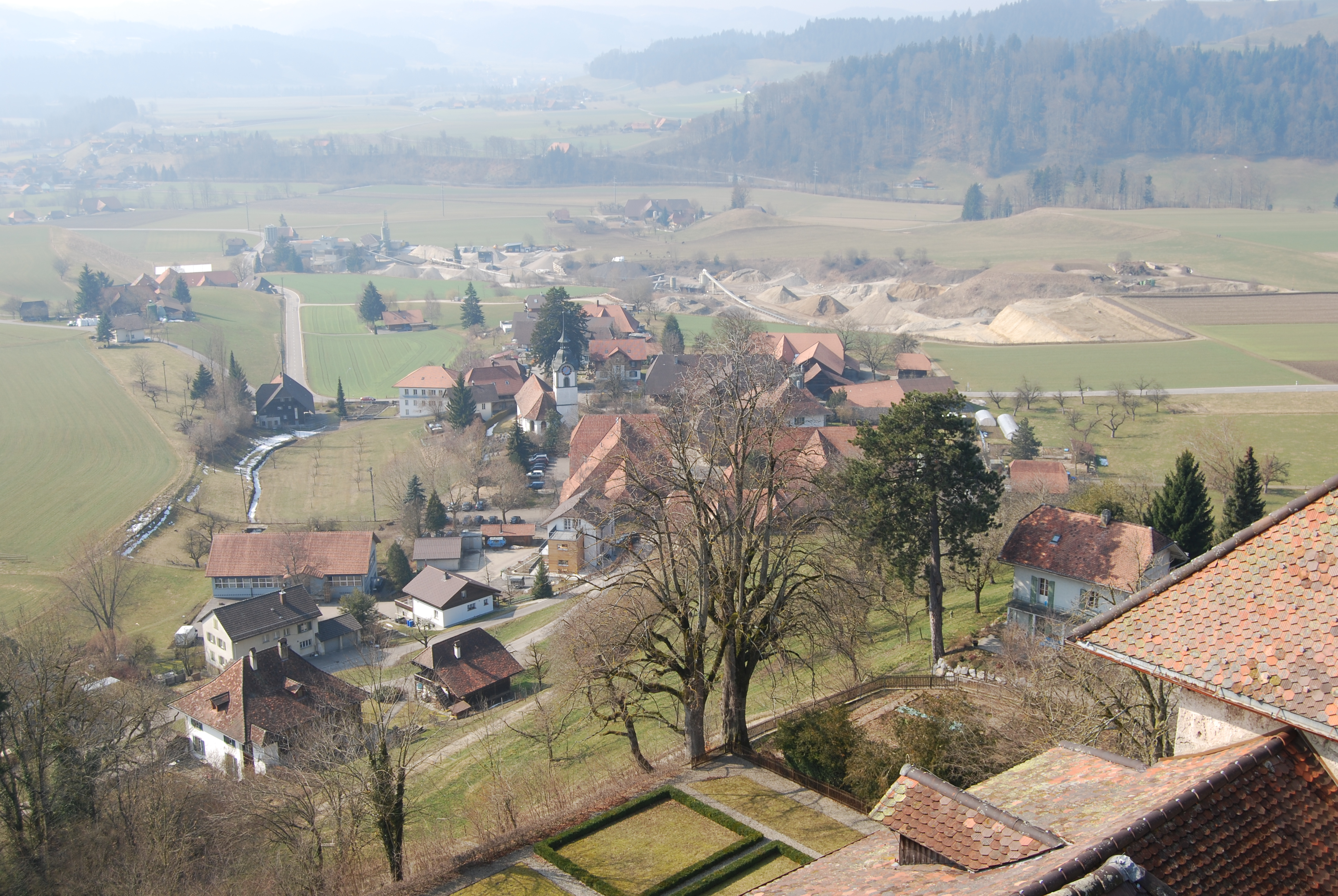 Trachselwald, canton of Bern, SwitzerlandEsperanto: Trachselwald, Kantono Berno, Svislando